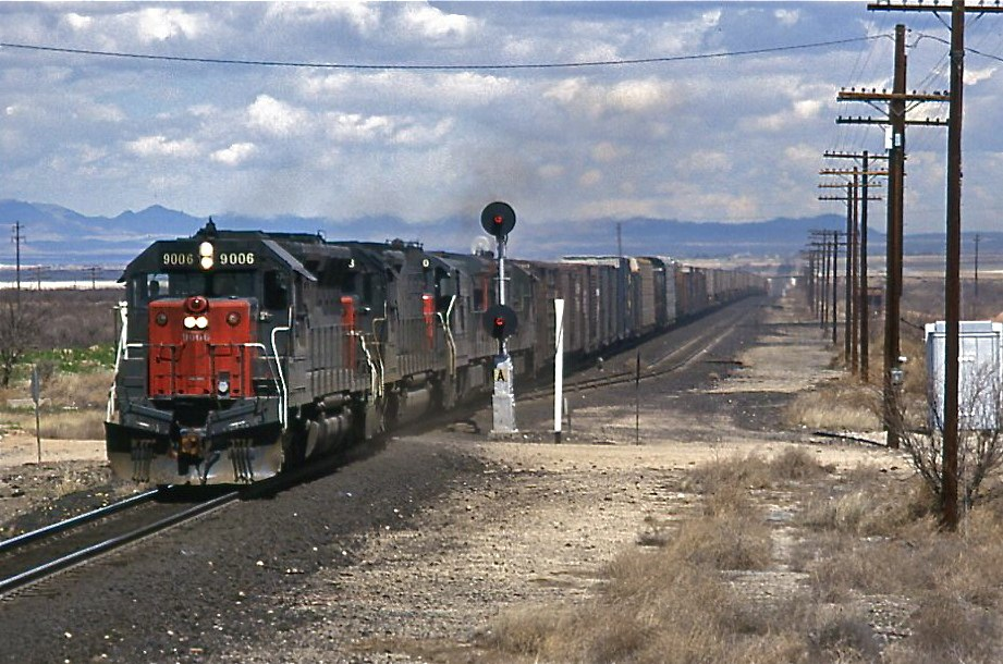 Taken at the west end of Cochise siding. Across street from the one time SP hotel, The Cochise Hotel. Scan of a Fujichrome 100 slide